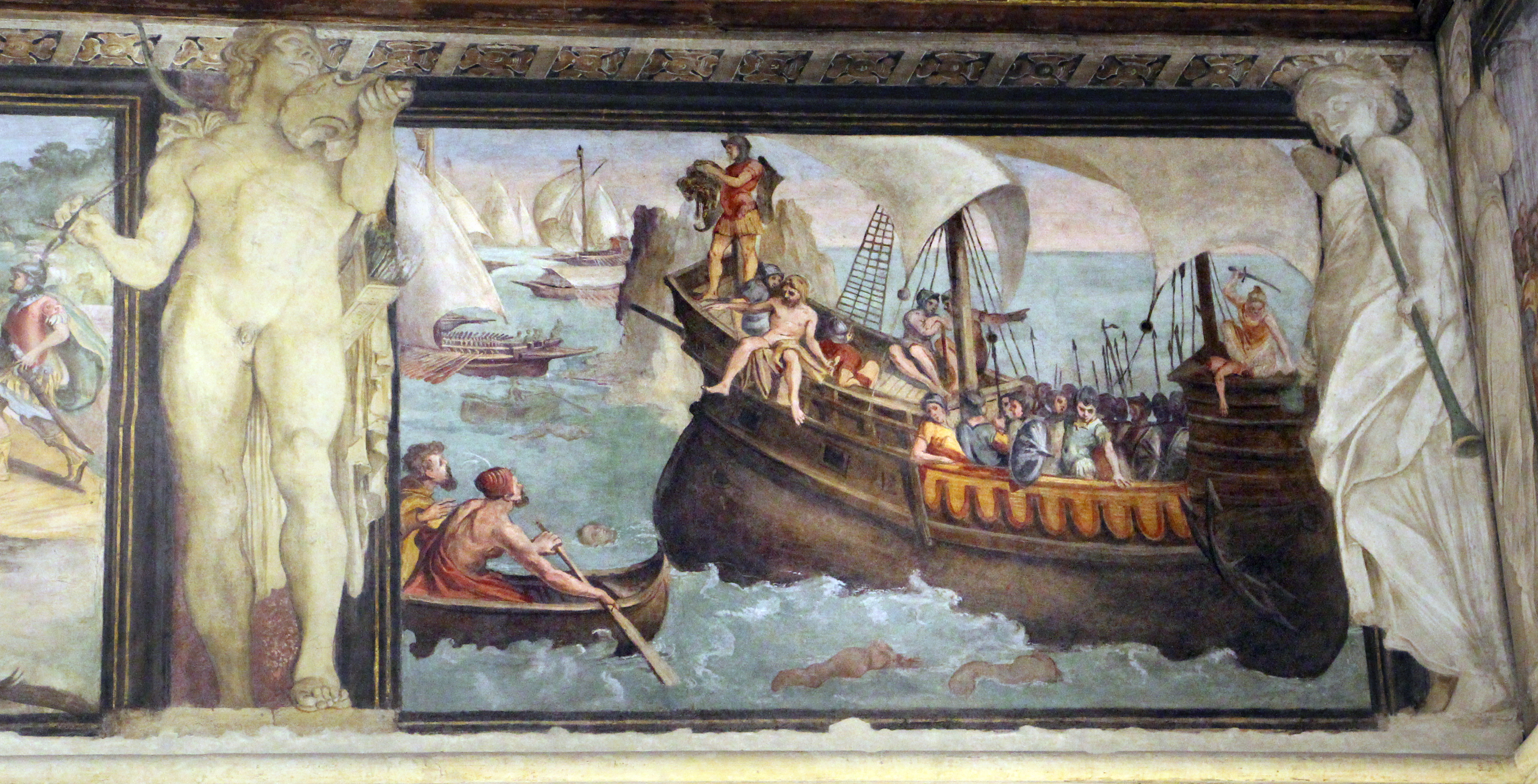 Frieze of Jason and Medea